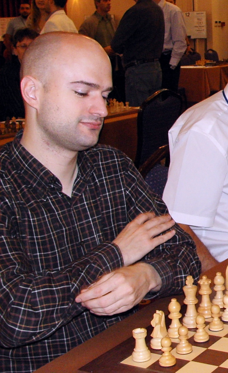 GM Marc Narciso Dublan Spain, EuroChess Iraklion 2007